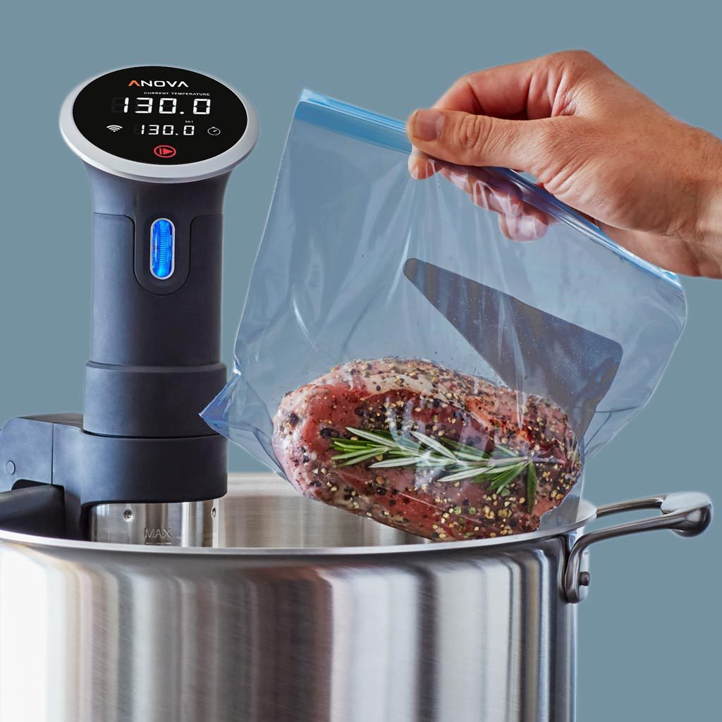 Sous vide stick Wifi for precise control over the water temperature of sous vide cooking.